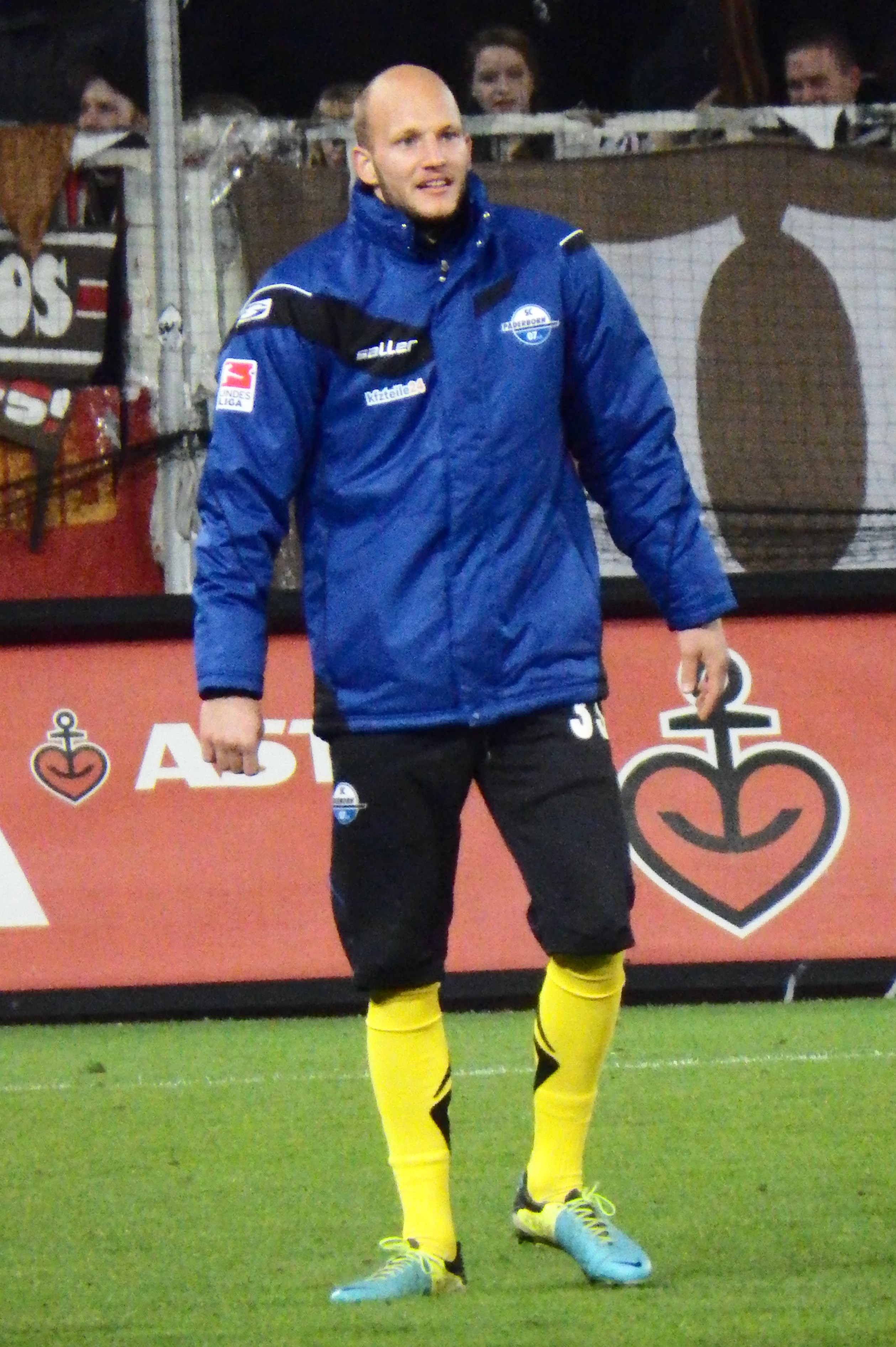 Daniel Lück as Player of SC Paderborn